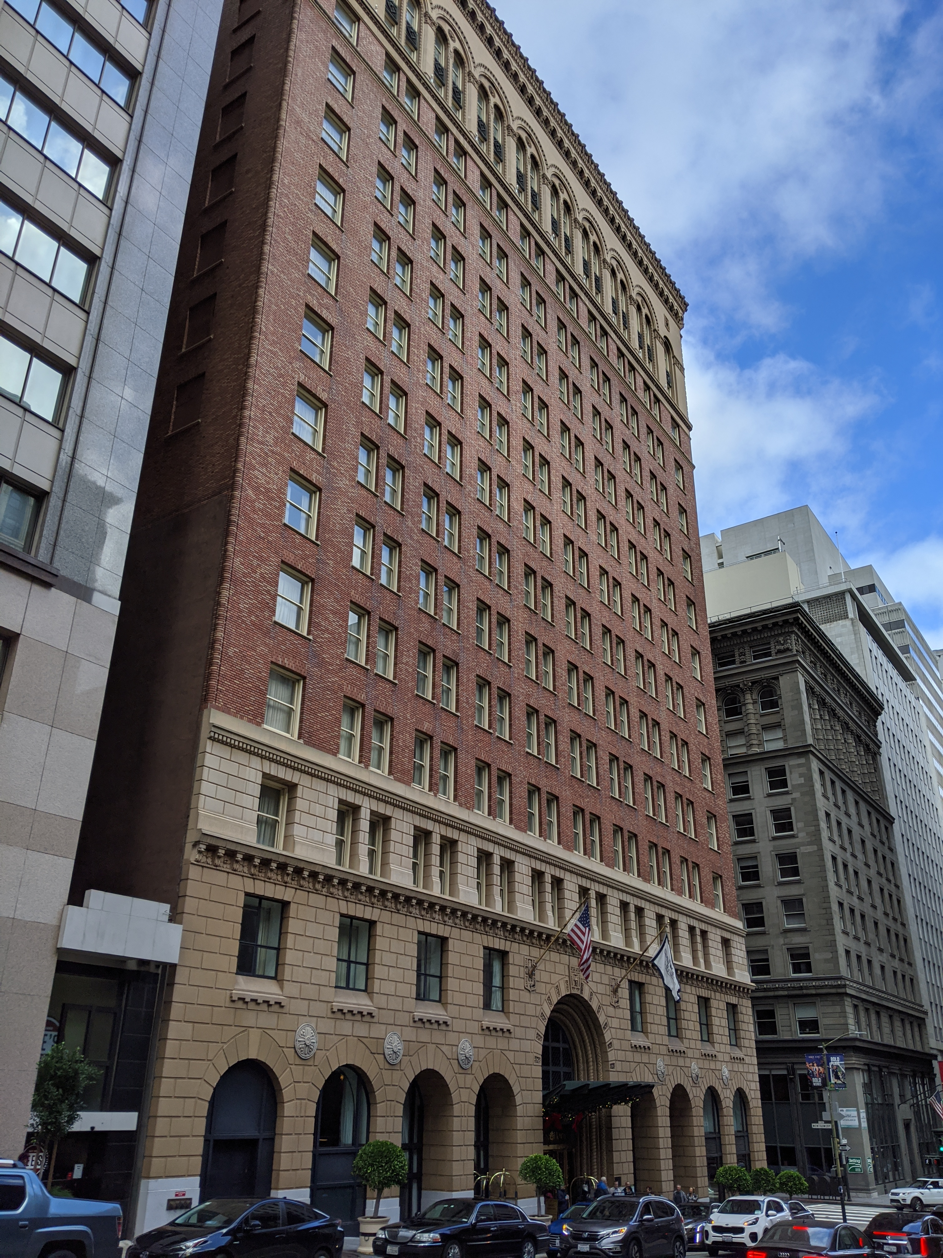 hotel